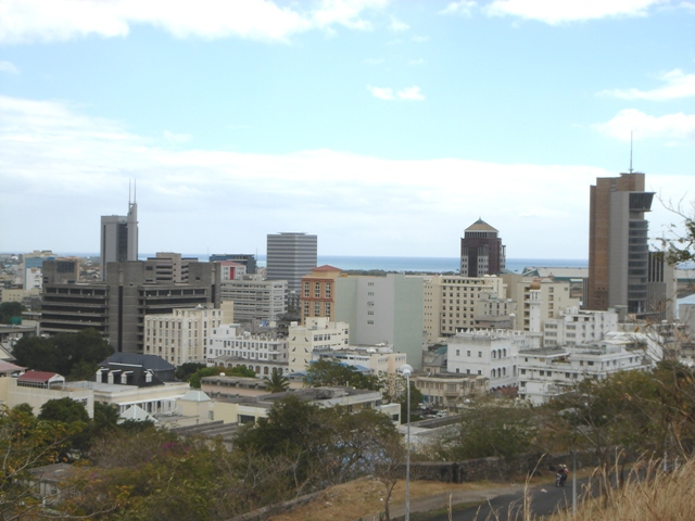 Port Louis, view from the hill on which the old citadel is located. 砦のある丘から眺めたポートルイスの街並み Taken by (WT-shared) Shoestring in September, 2006 Location: Port Louis, Mauritius